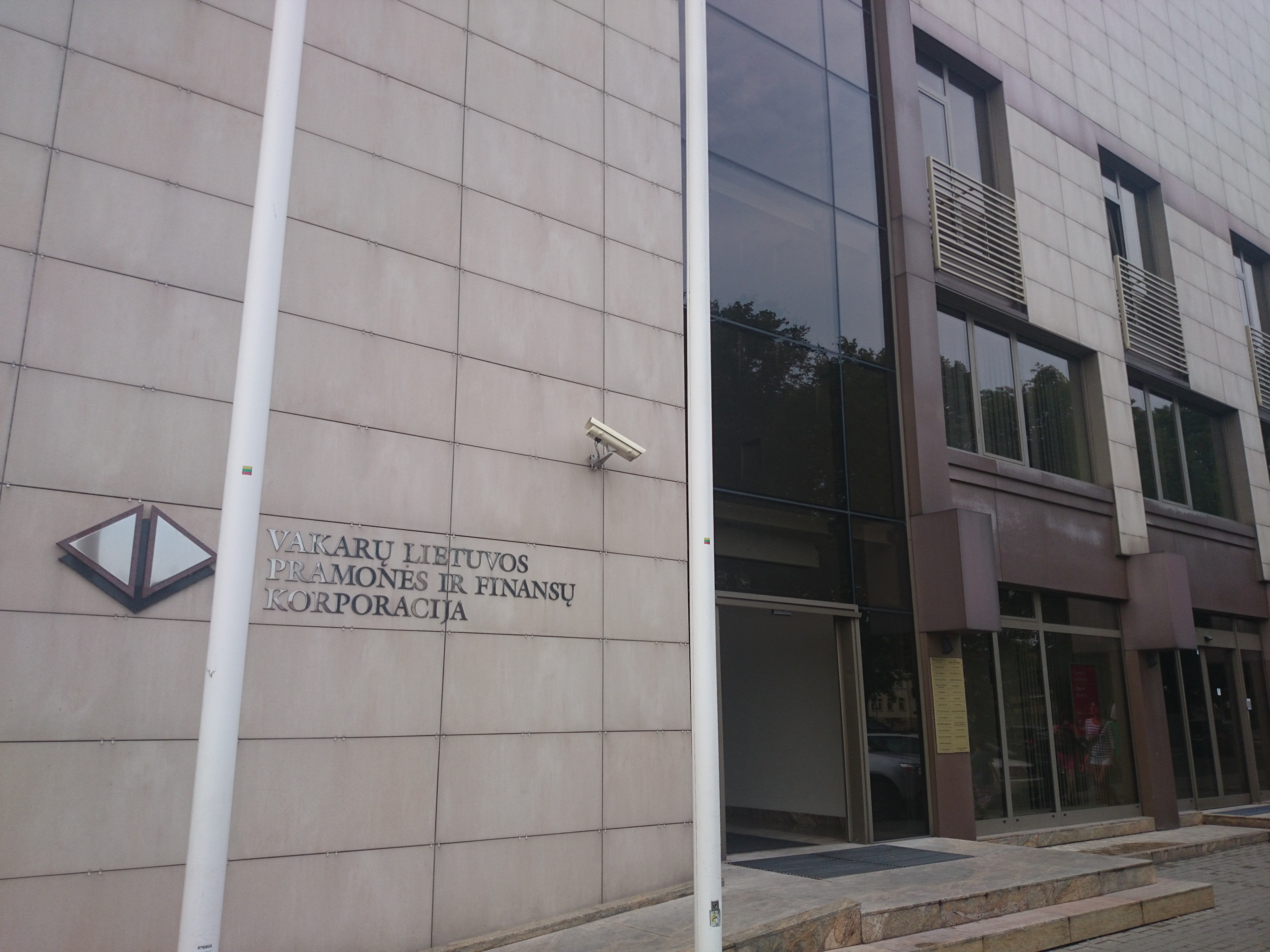 VLPFK Klaipėda